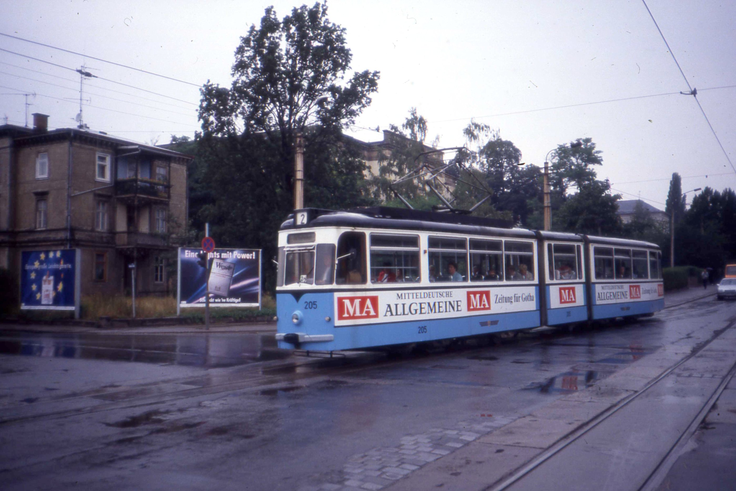 Gotha G4-65 articulated tram 205 at Hauptbahnhof, arriving from Ostbahnhof on route 2. 205 was scrapped in 1993. It had been repainted from cream and red into the blue and white town livery, and is carrying MA Mitteldeutsche Allgemeine Zeitung advertising for the local newspaper. The MAZ was another short-lived newspaper in Thüringen between 1990 and 1993 in the crazy free market world when there were five daily newspapers in the town as stated here in Aschenbrenners blog. The MA was an attempt to break into the Thuringian market by Hessisch/Niedersächsischen Allgemeinen“ (HNA) of West Germany. Its successor, the Thueringische Landeszeitung from Weimar still exists in a much shrunken market having taken over what remained of the HNA excursion into the new Bundeslaender. To complete the scene, advertising hoardings show western cigarette brands, including WEST, "eine Lights mit Power!"